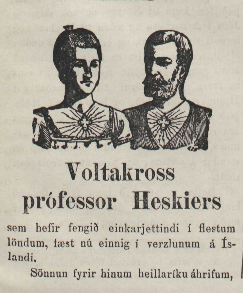 Advertisment in Icelandic magazine in 1897 advertising Voltakors, a special type of tool worn for medical reasons.